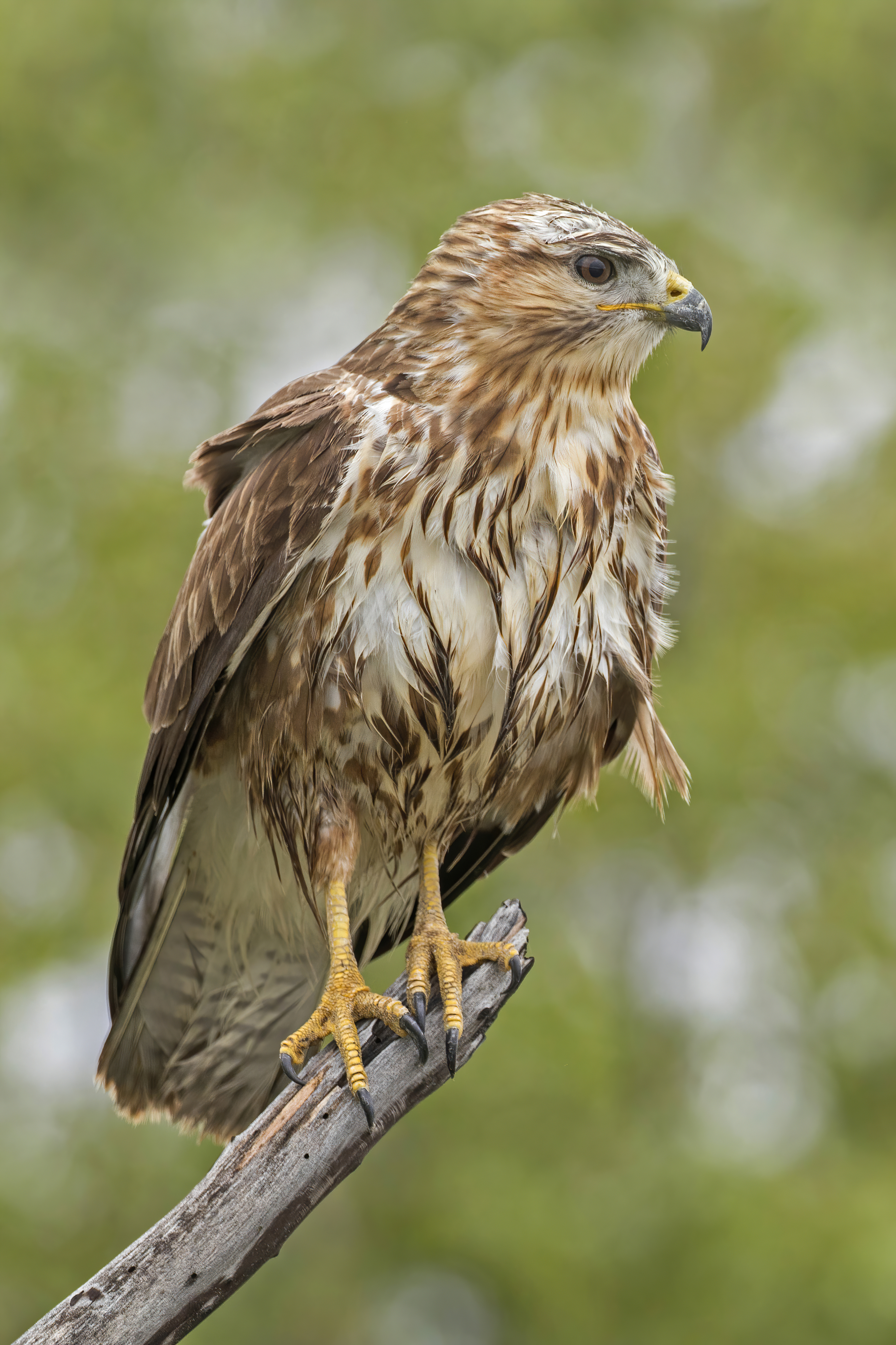 Steppe buzzard (Buteo buteo vulpinus), Etosha National Park, Namibia